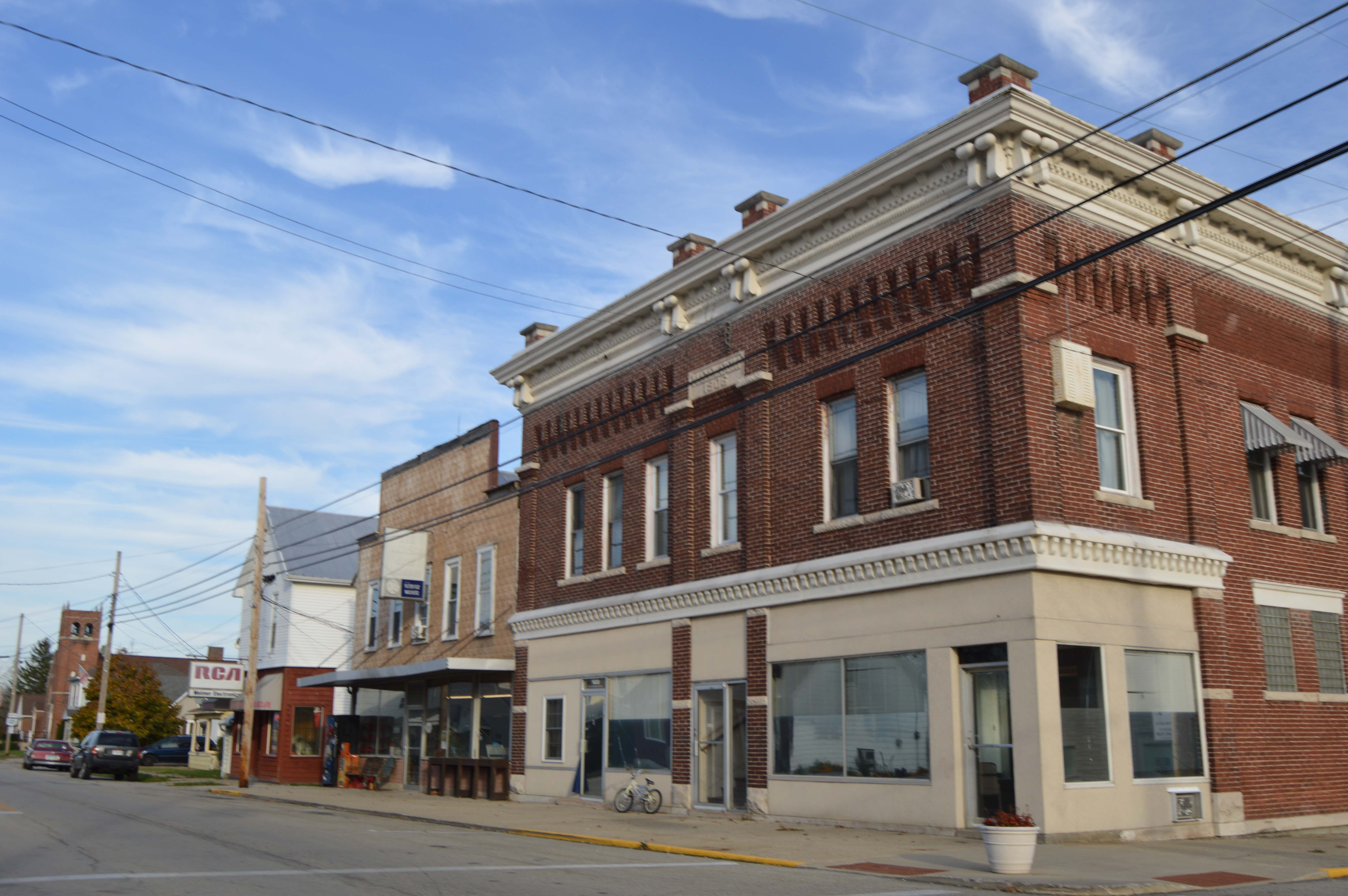 Looking northward on Main Street (State Route 121) from the Washington Street intersection in New Madison, Ohio, United States.